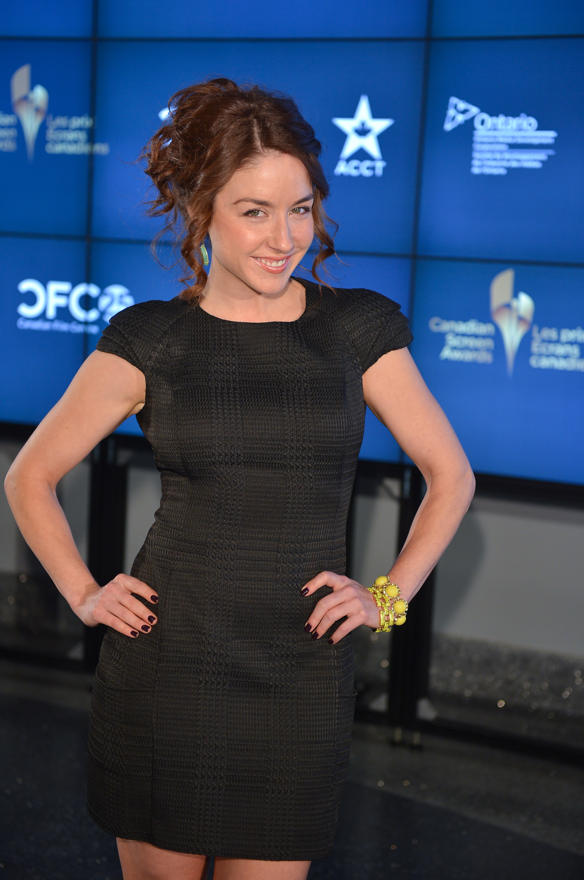 Canadian Screen Award nominee Erin Karpluk (Being Erica). On March 1, 2013, the CFC, in support of the The Academy of Canadian Cinema & Television (Academy), celebrated Canadian talent at the Canadian Screen Awards Nominee Reception. Academy's new Canadian Screen Awards recognize excellence in film, television and digital media productions. This marked the inaugural year for the Canadian Screen Awards.